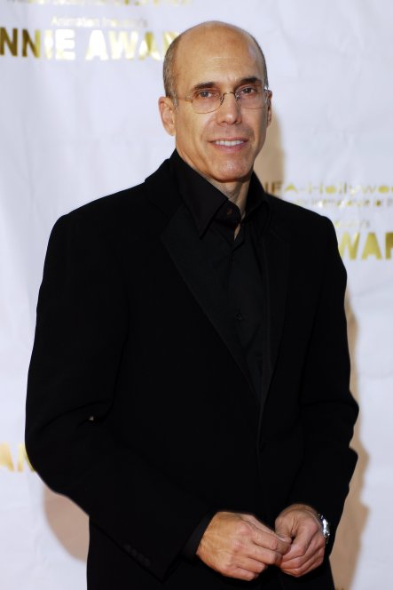 Dreamworks Animation head Jeffrey Katzenberg at the 2006 Annie Awards red carpet at the Alex Theatre in Glendale, California.